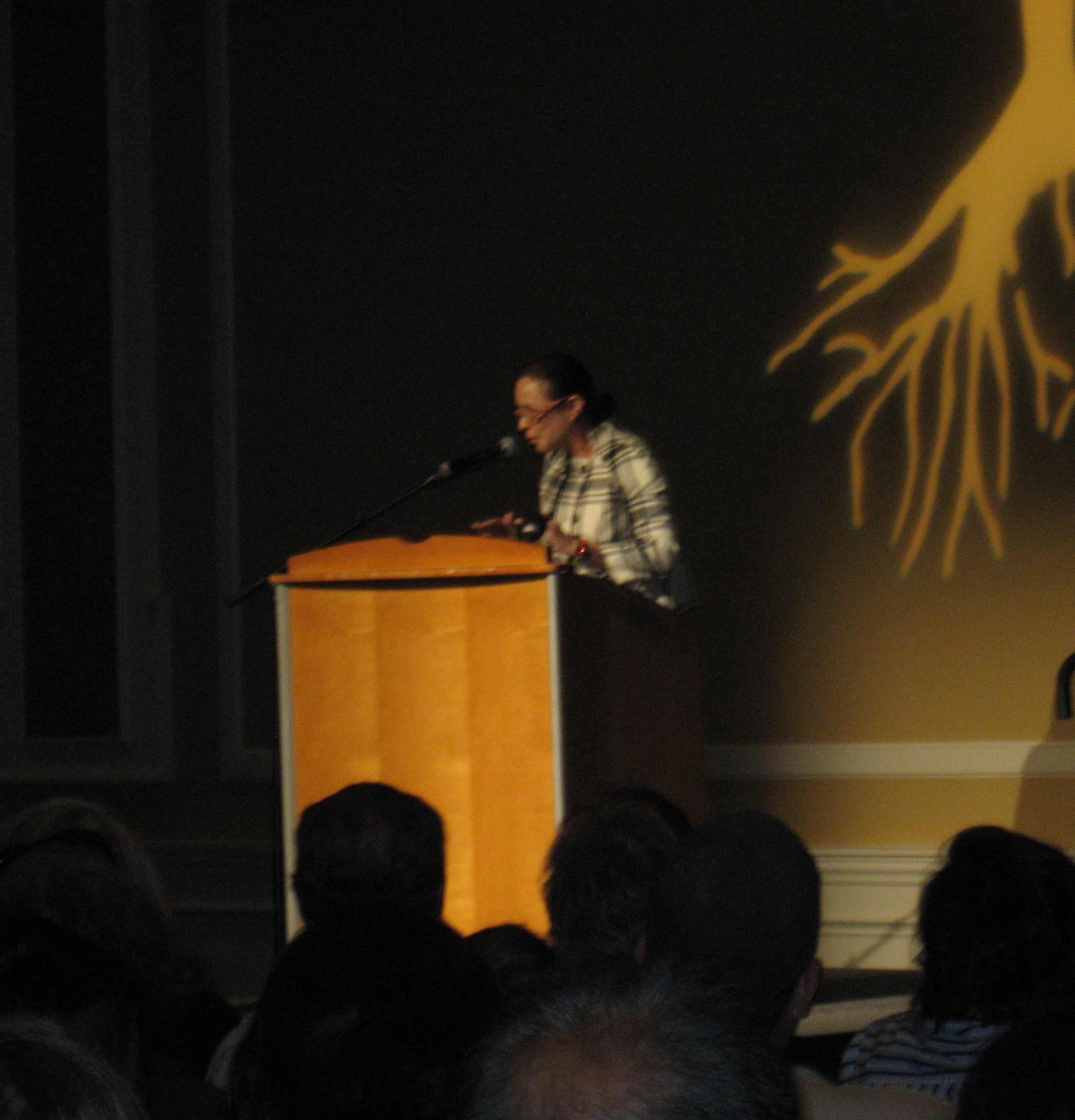 Alina Fernandez speaks at Ohio University (Athens, Ohio, USA)